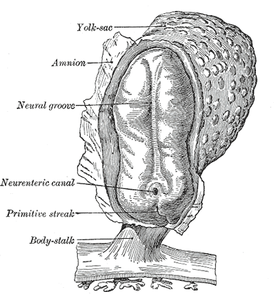 Human embryo, length 2 mm. Dorsal view, with the amnion laid open. X 30. (After Graf Spee.)